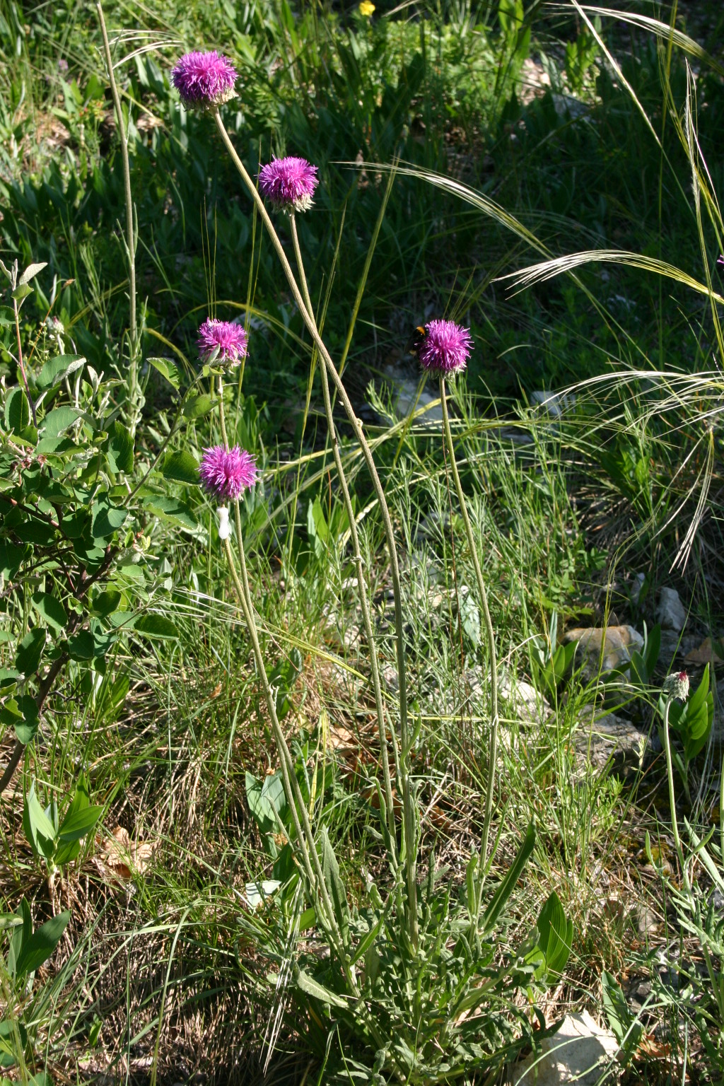 Jurinea mollis